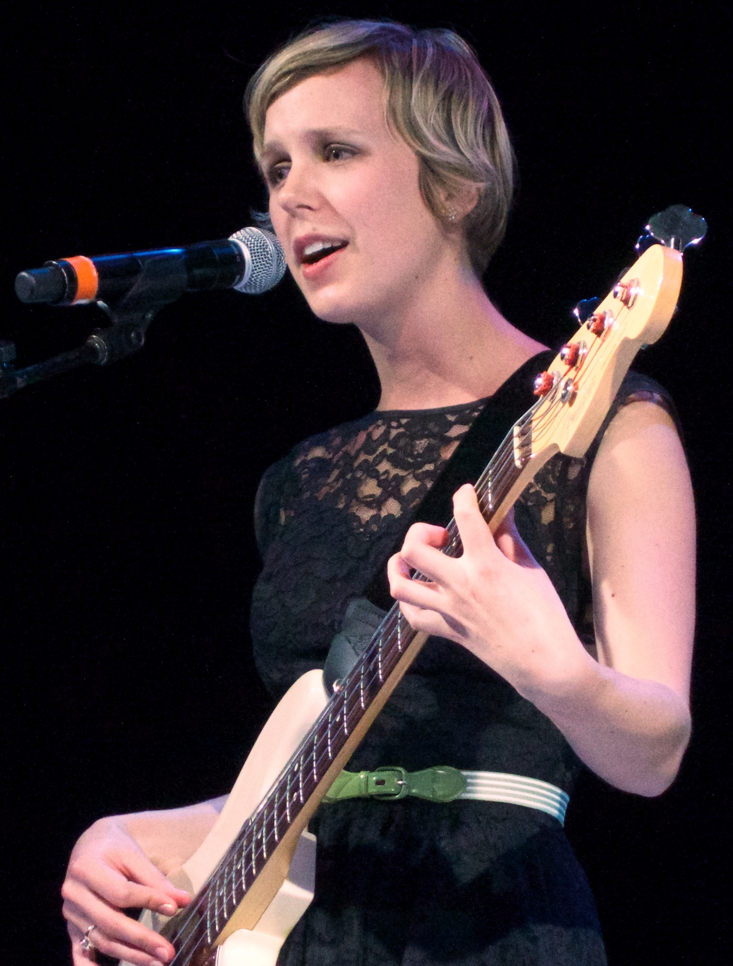 Natalie and Jack